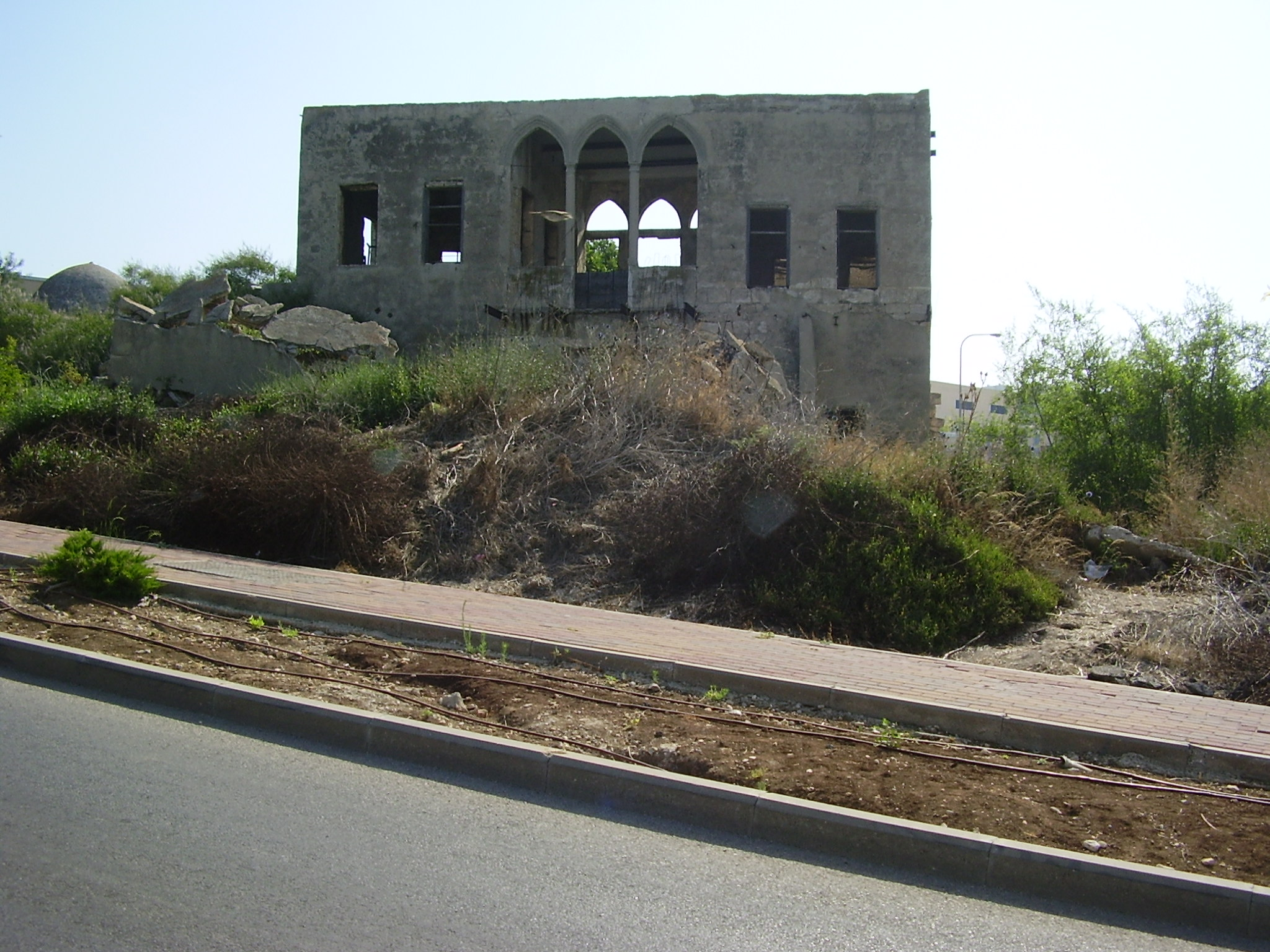 Abandoned Arab house in Bassa